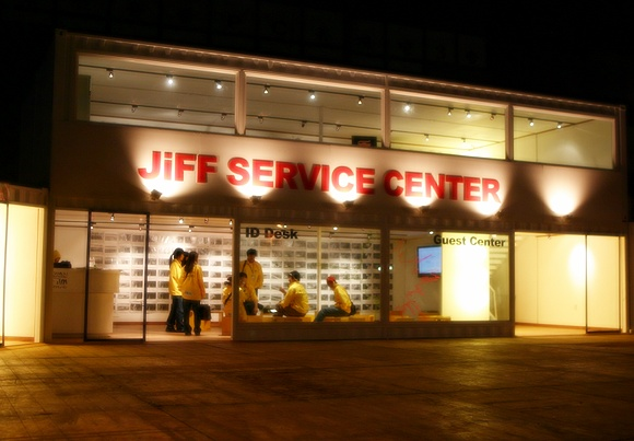 JIFF Service Centre